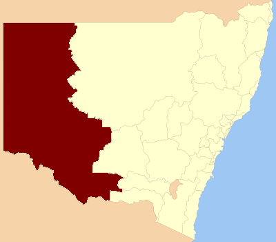 Location of the New South Wales Legislative Assembly electoral district within New South Wales. Reference: [1]